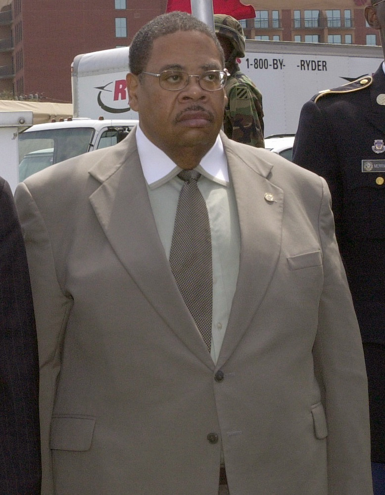 "Commissioner Pete Wheeler (left), State of Georgia Department of Veterans Affairs, Savannah Mayor Floyd Adams, and STAFF Sergeant (SSG) Stacy L. Merriwether, Administrative Services NCOIC, stand as Taps is played at a ceremony for the first Commemoration of the 50th Anniversary of the Korean War recognizing the veterans"